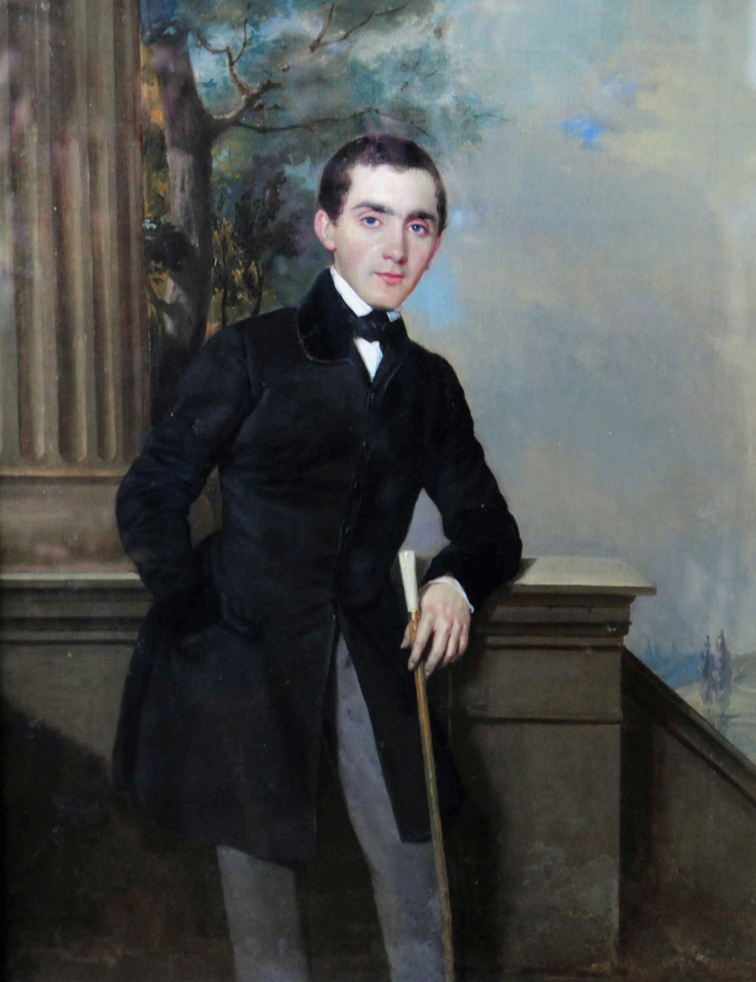 Auroportarait of Pyotr Zakharov-Chechenets